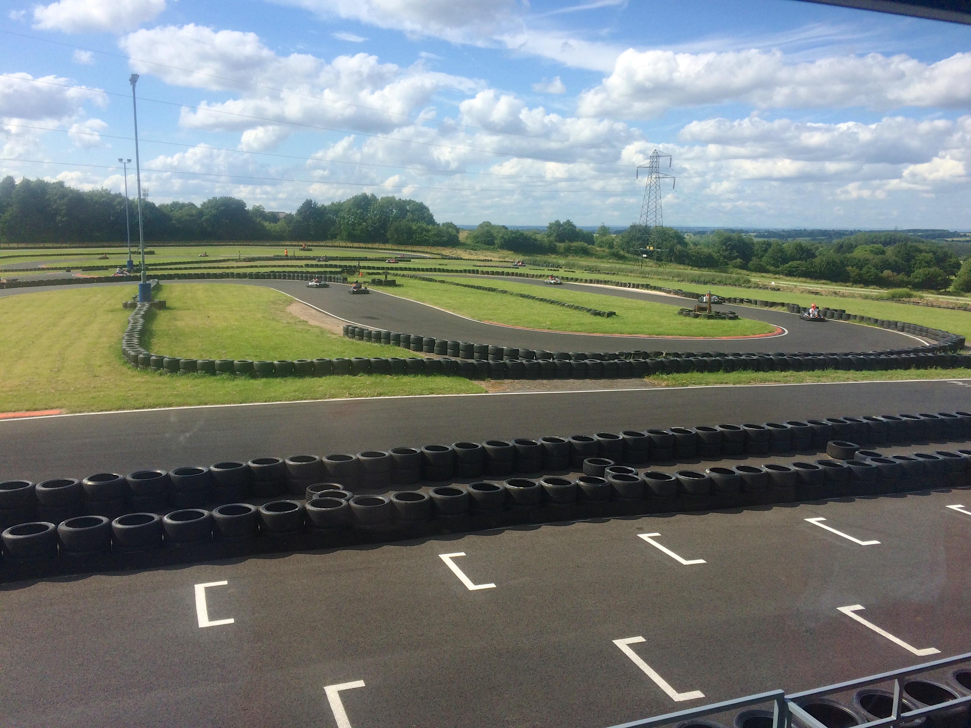 Daytona Tamworth karting circuit, United Kingdom